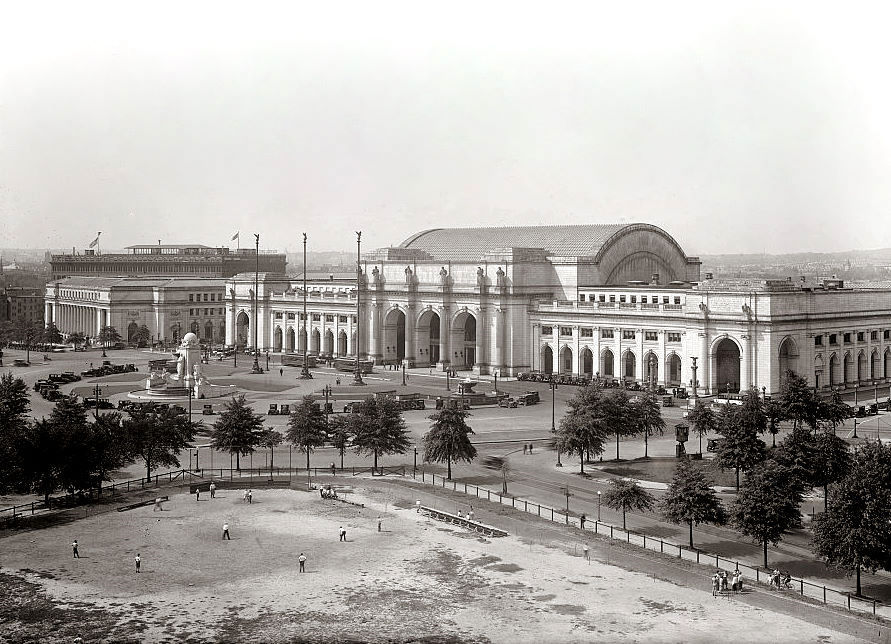 Baseball game taking place in front of Union Station in Washington, D.C. Other landmarks visible include the Postal Square Building, United States Government Printing Office, and Christopher Columbus Memorial Fountain. All four landmarks are listed on the National Register of Historic Places.